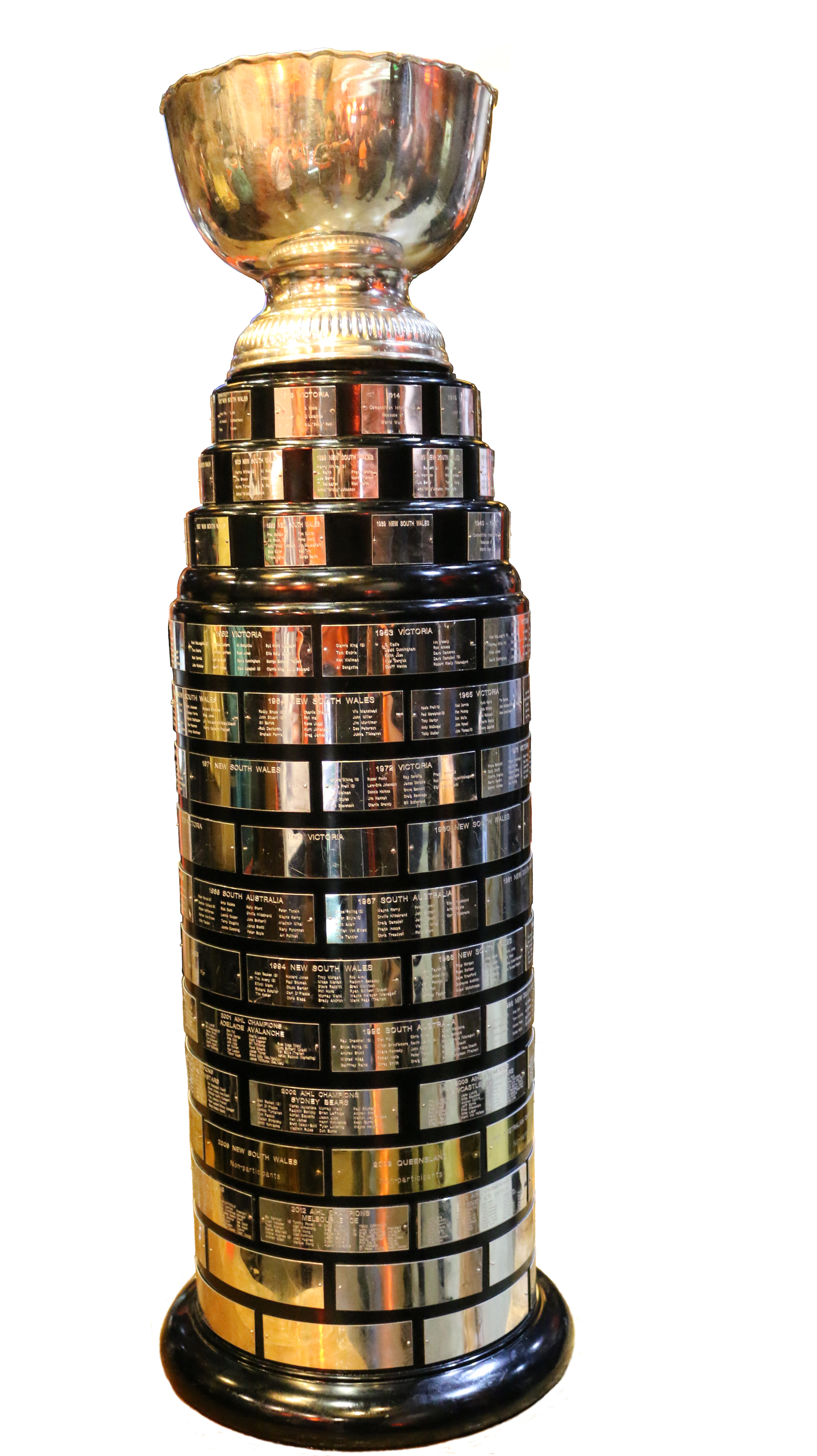 Goodall Cup "Replica Cup" 2014